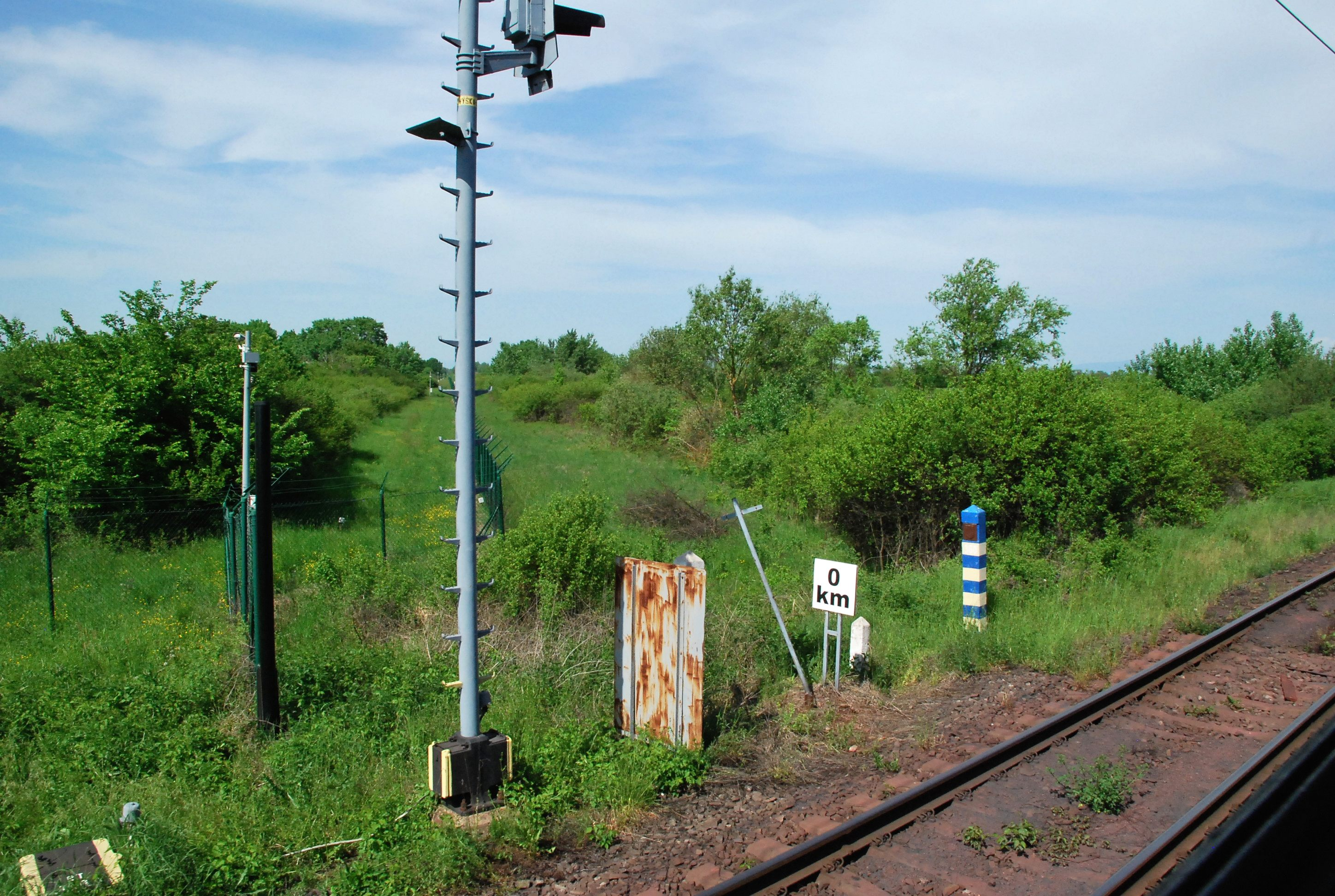 Slovak-Ukrainian state border between Čierna nad Tisou and Chop. Border line, kilometer "0,0".